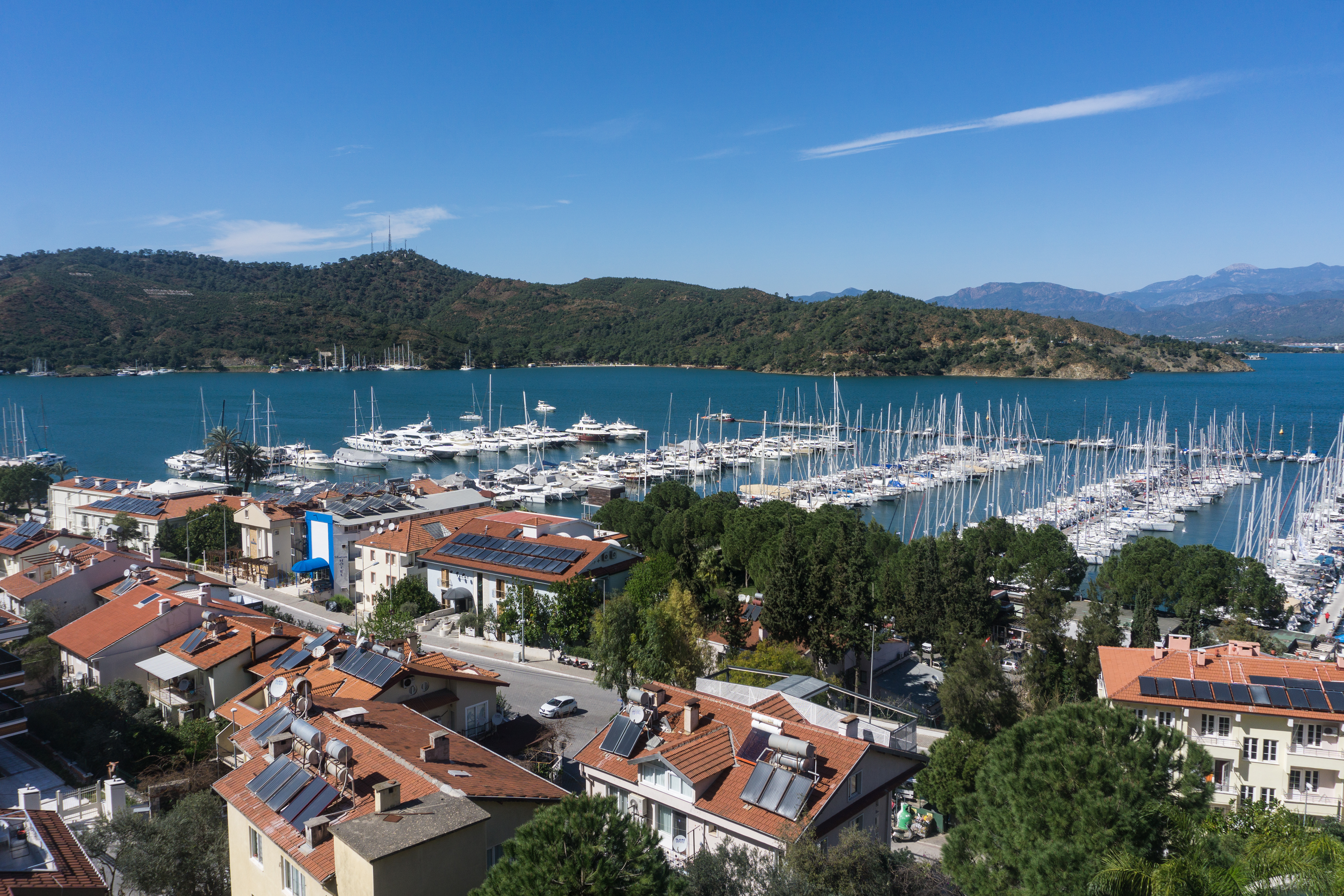 Fethiye in March